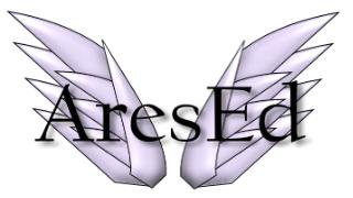 AresEd logo